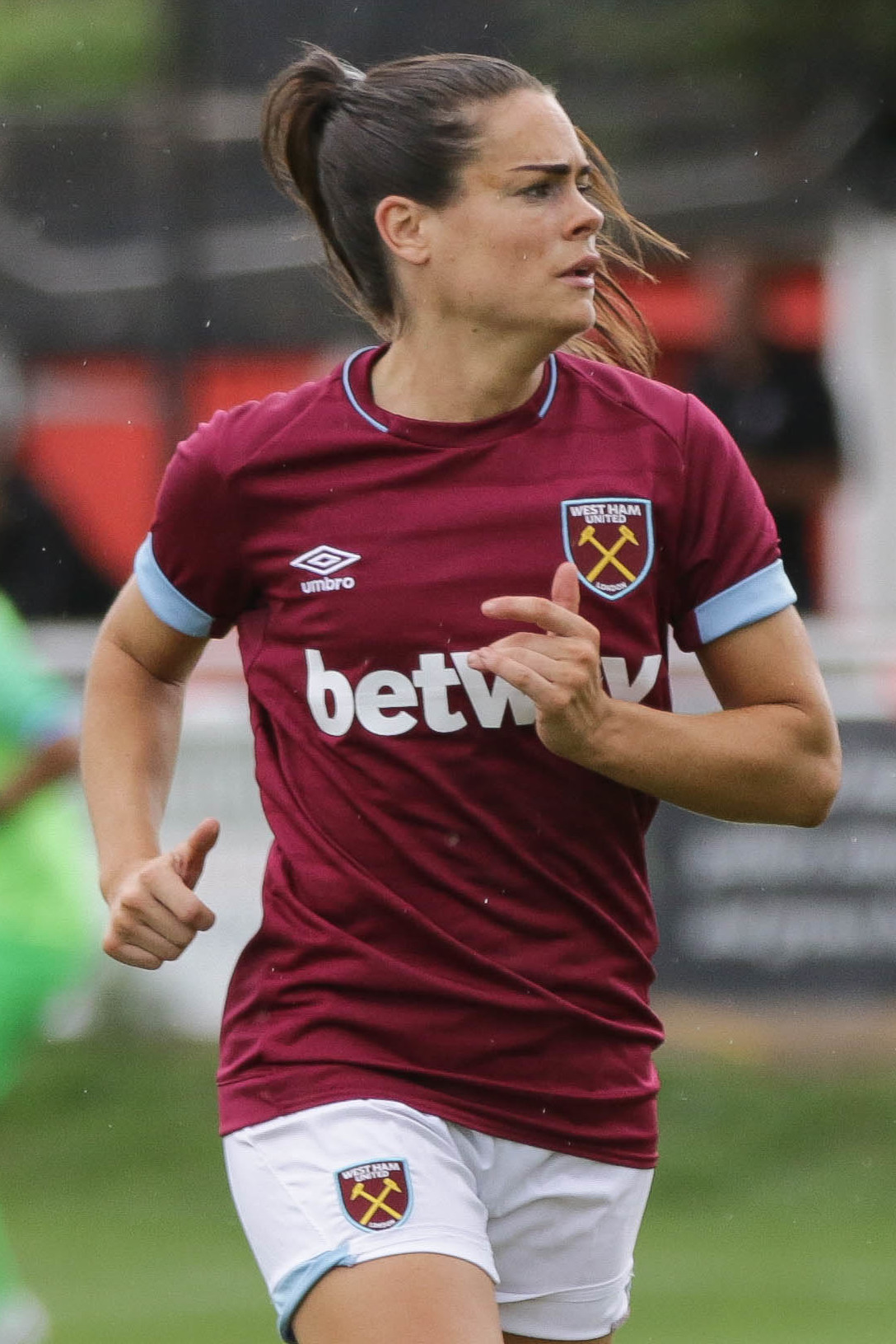 Lewes FC Women 0 West Ham Utd Women 5 pre season 12 08 2018-244.jpg